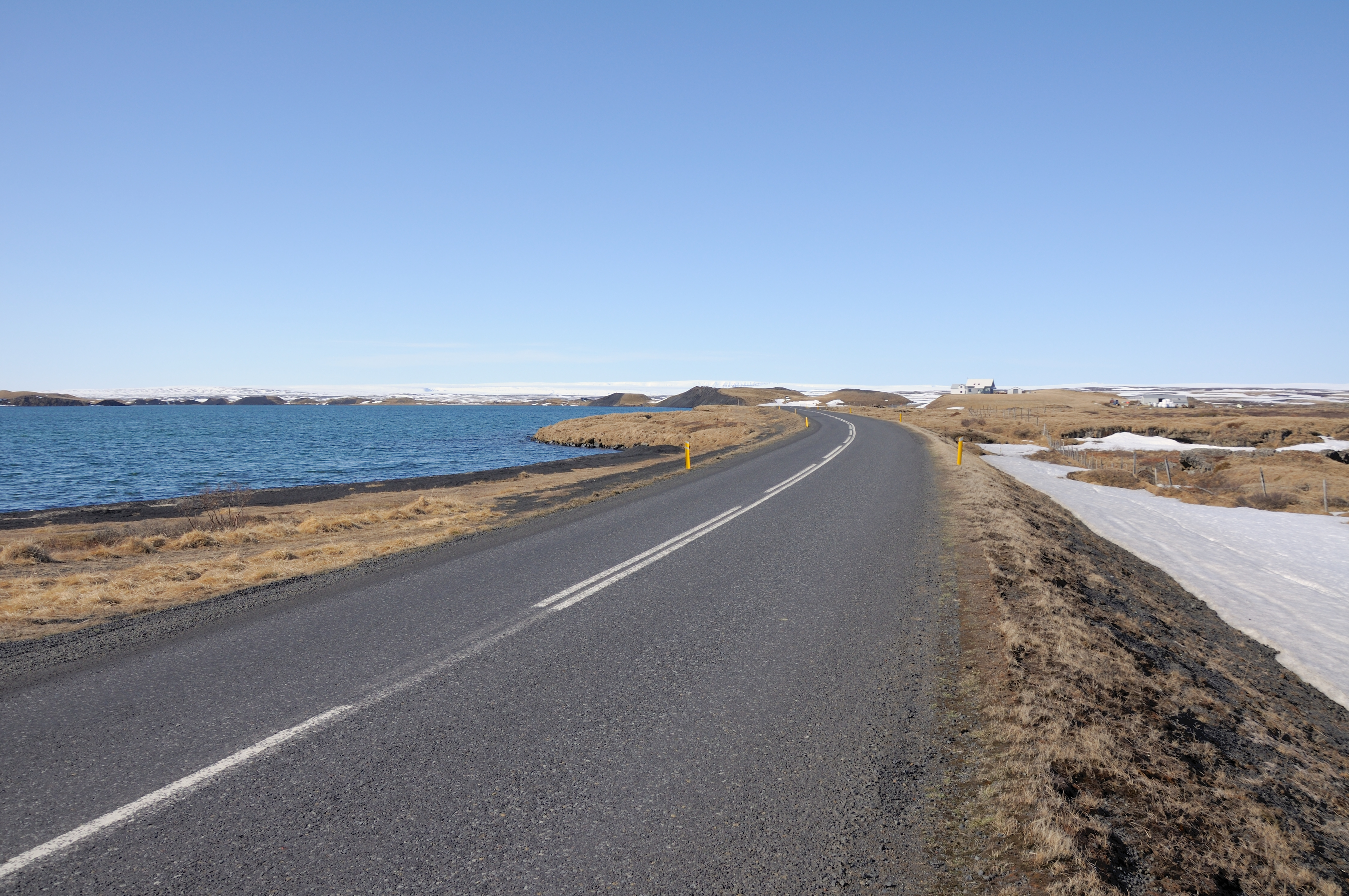 Iceland, ring road along Mývatn